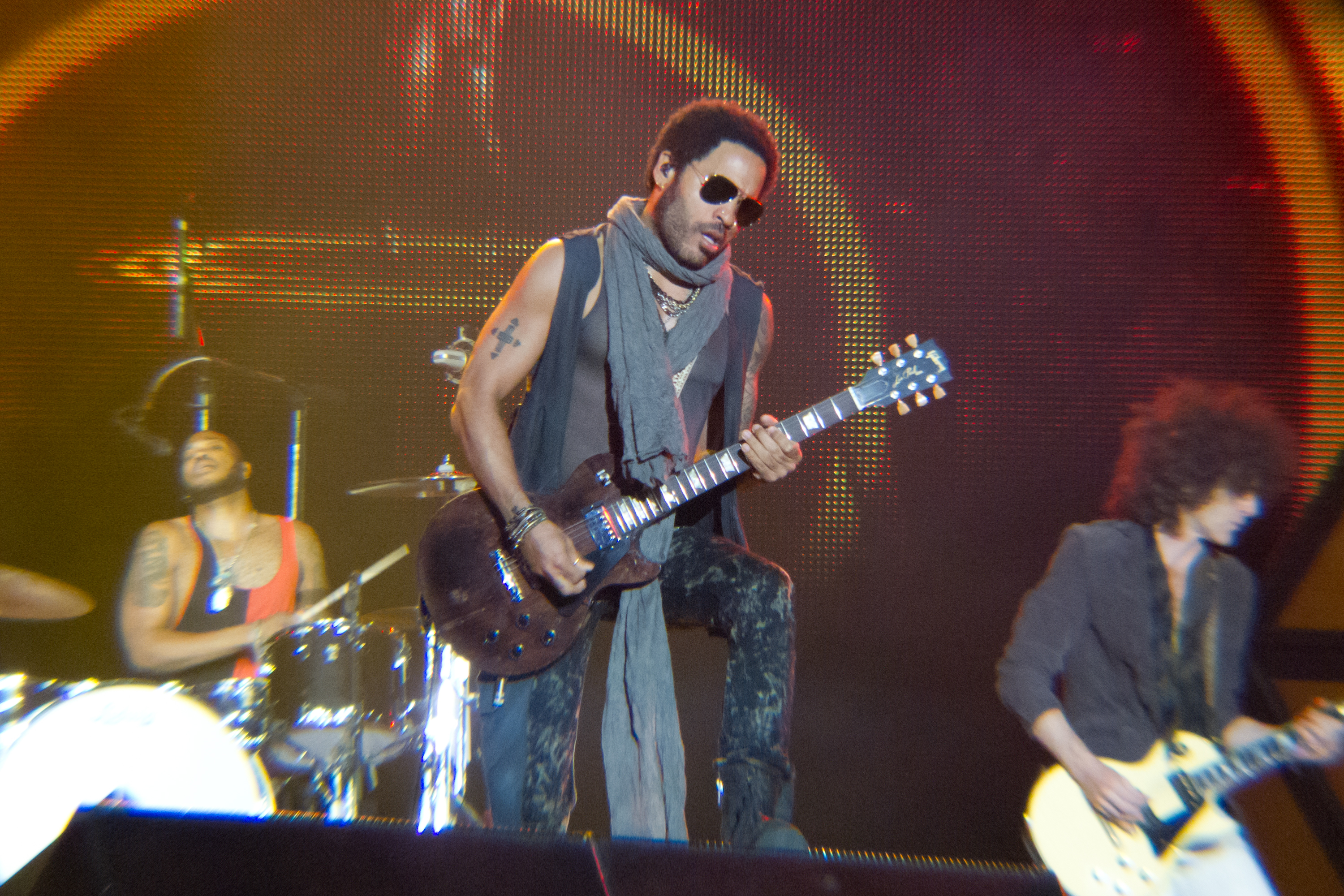 Lenny Kravitz live in Rock in Rio Madrid 2012.